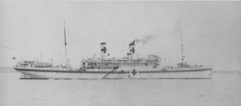 Japanese auxiliary hospital ship Asahi Maru